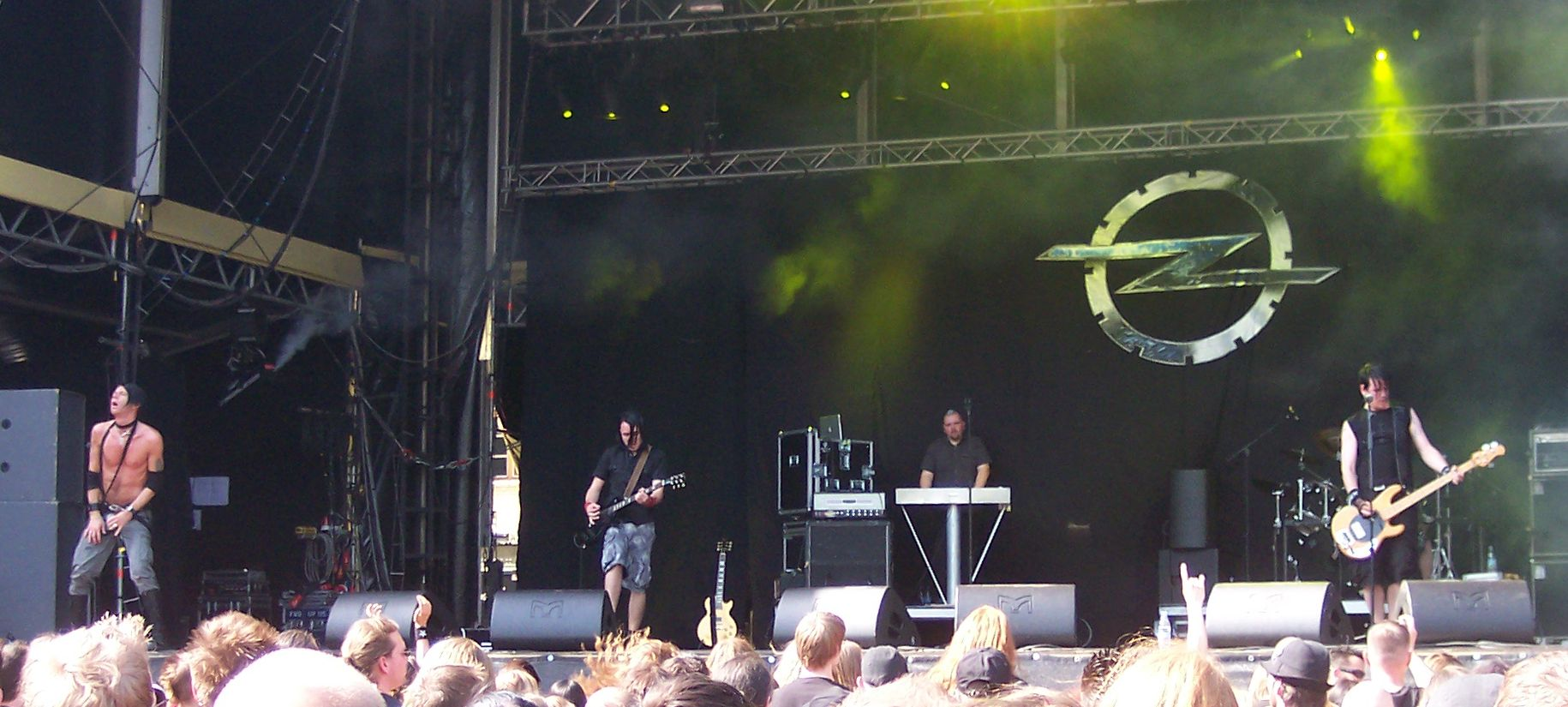 "Zeromancer" playing at Zita Rock festival 2008